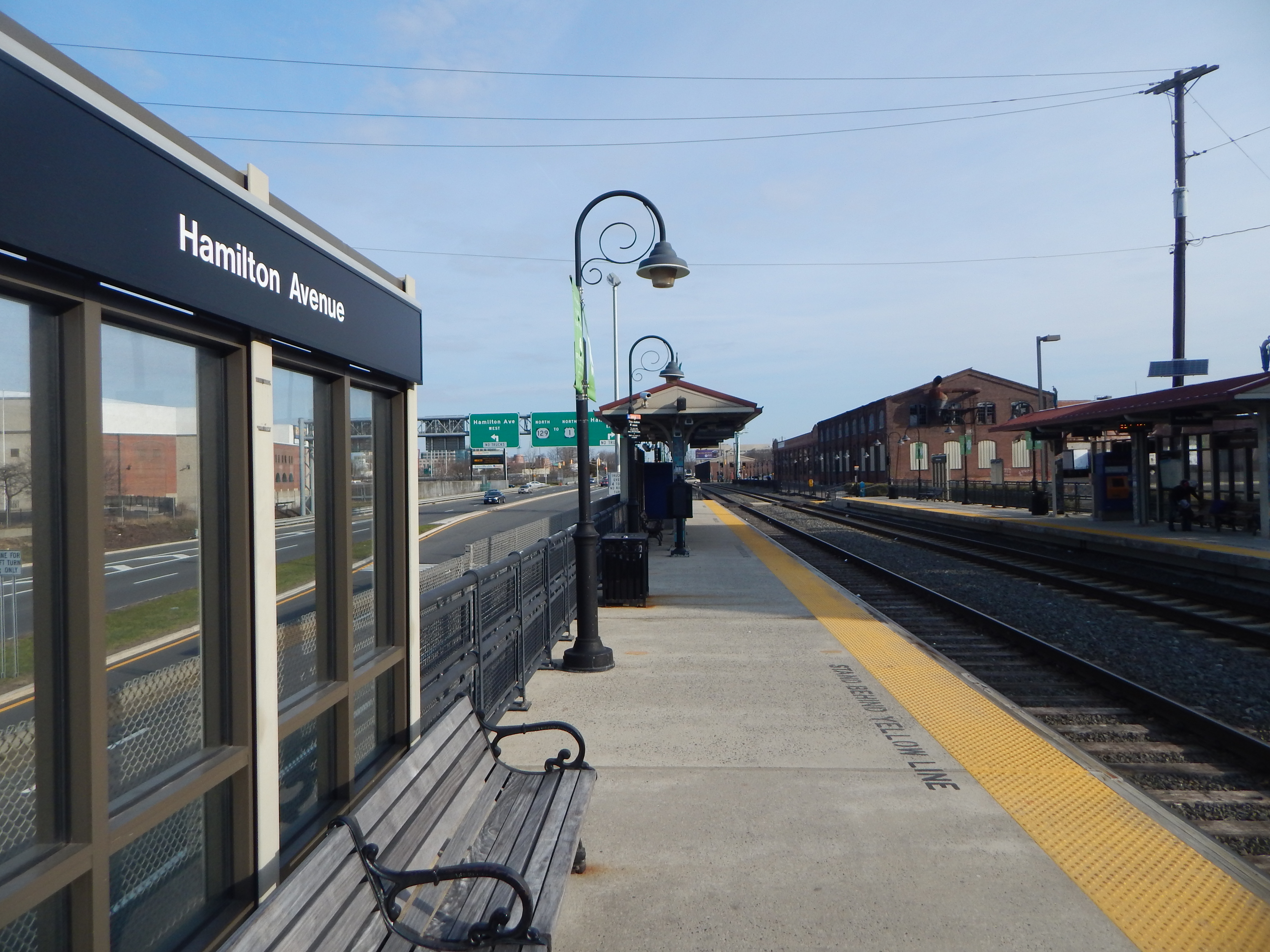 The Hamilton Avenue station with the National Register of Historic Places listed John A. Roebling's Sons Company, Trenton N.J., Block 3 in the background, in Trenton, New Jersey.